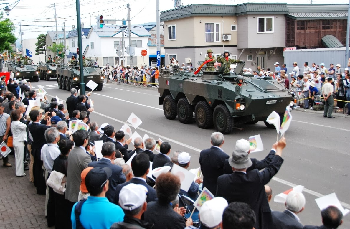 Title 25.06.16 名寄・名寄駐屯地創立６０周年記念行事.jpg Album Events and Public Relations (イベント・行事・広報活動等) 名寄駐屯地創立６０周年記念行事（名寄）